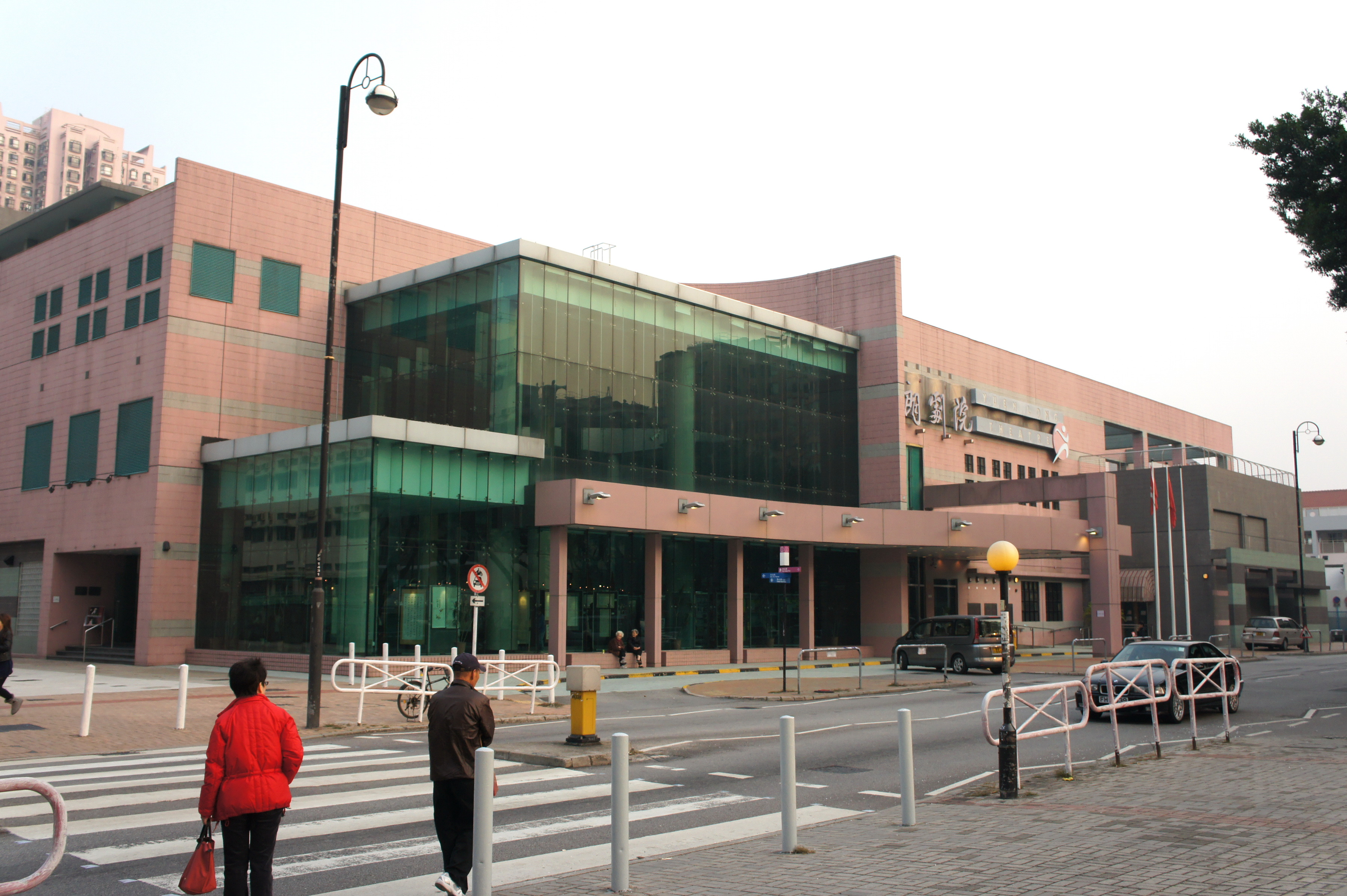 Yuen Long Theatre, New Territories, Hong Kong. Yuen Long Tai Yuk Road is at the front.